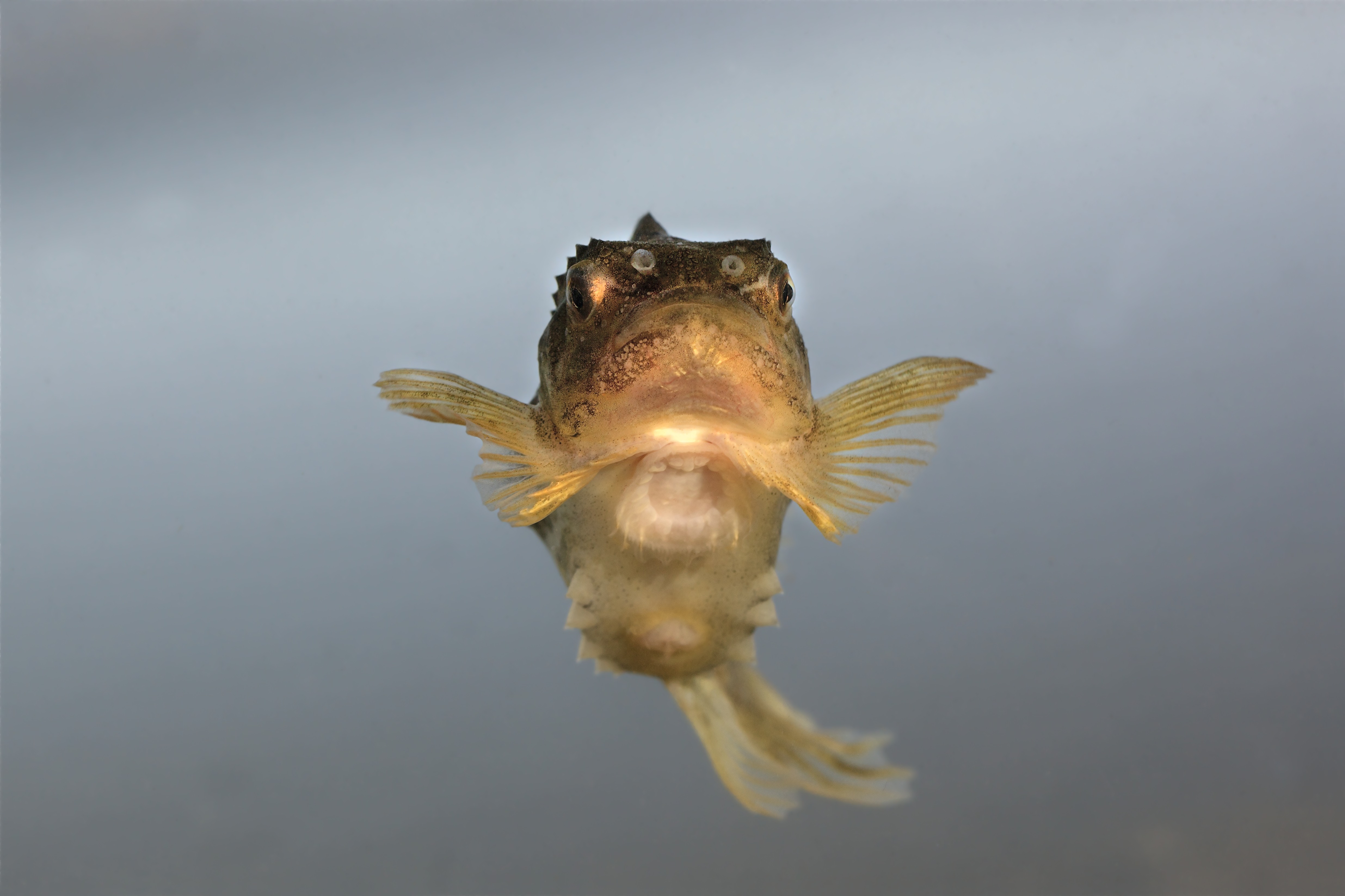 Cyclopterus lumpus near Vääna-Jõesuu in Estonia.